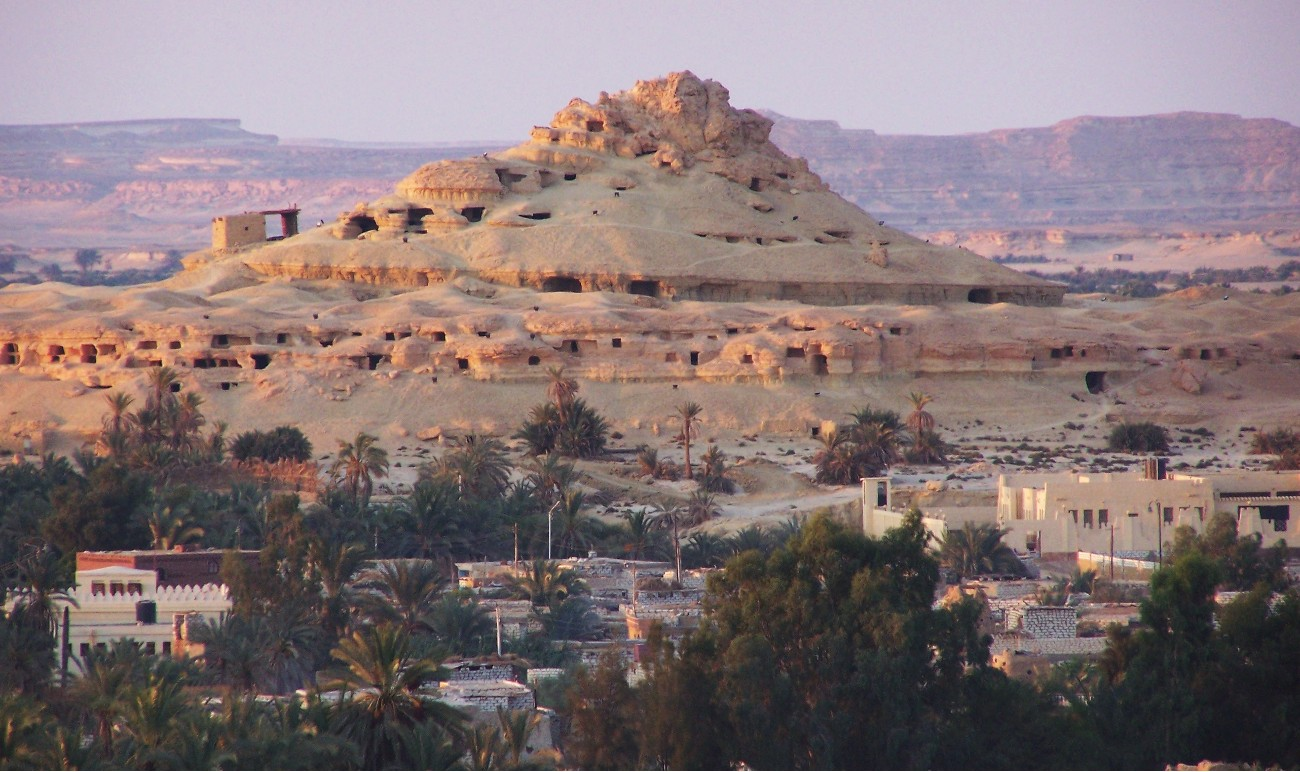 Mountain of the Dead in Siwa. Mountain of the Dead in Siwa, Siwa.